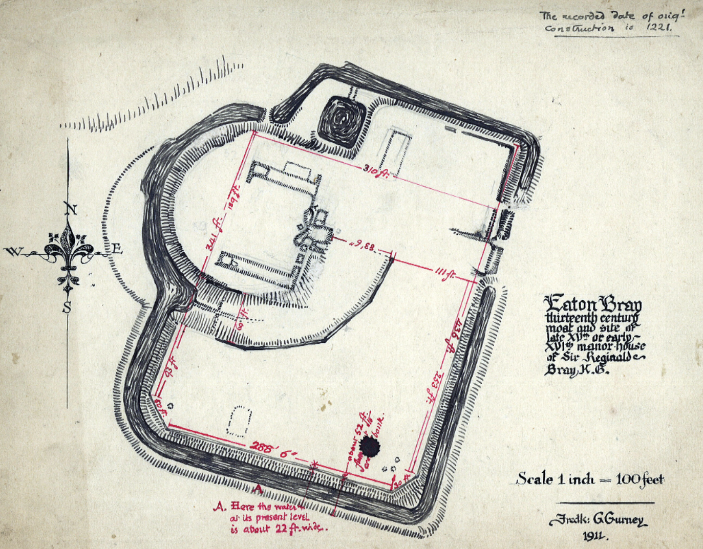 Eaton Bray Castle, Bedfordshire, site of, drawn in 1911 by Frederick Gurney (1878-1947). Now the site of "Park farm Fishery", about 800 metres west of the village of Eaton Bray.